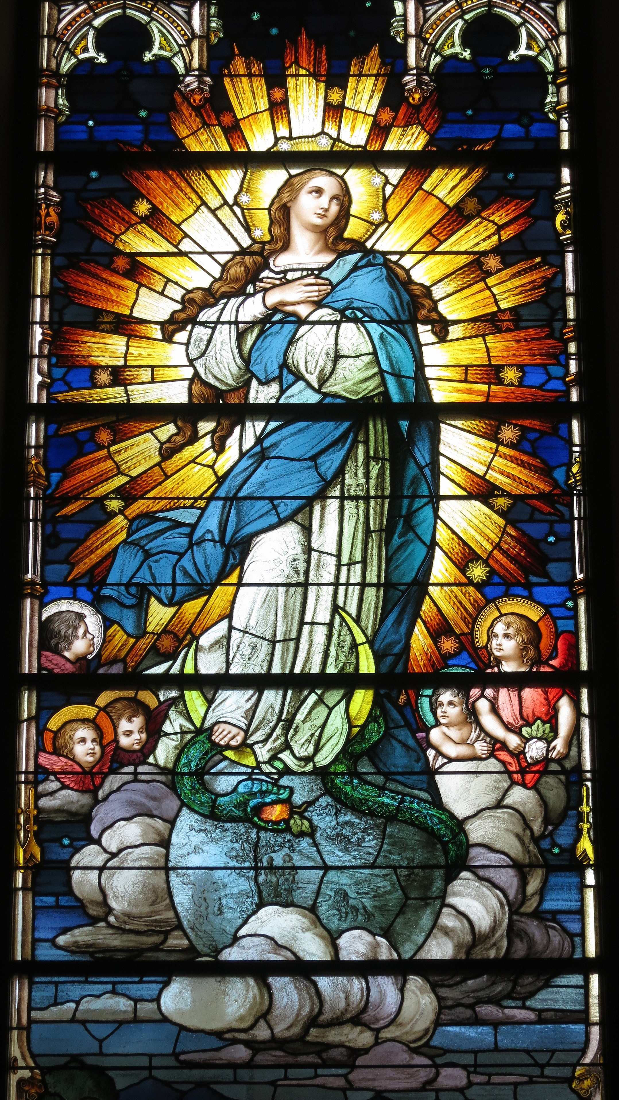 Saint Julie Billiart Catholic Church (Hamilton, Ohio) - stained glass, Immaculate Conception